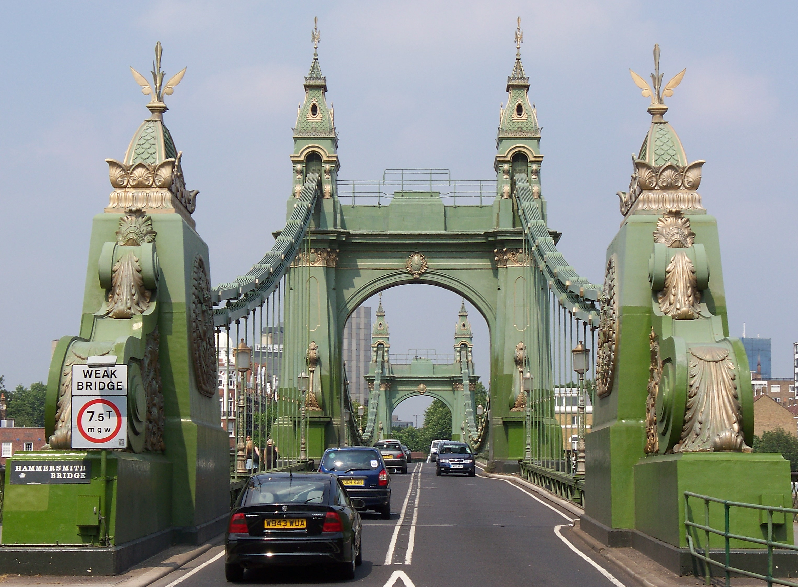 Hammersmith Bridge, London. Photograph taken in a public location in the UK of a building on permanent public display, and exempt from copyright under Section 62 of the Copyright Designs & Patents Act 1988 ("it is not an infringement of copyright to film, photograph, broadcast or make a graphic image of a building, sculpture, models for buildings or work of artistic craftsmanship if that work is permanently situated in a public place or in premises open to the public")